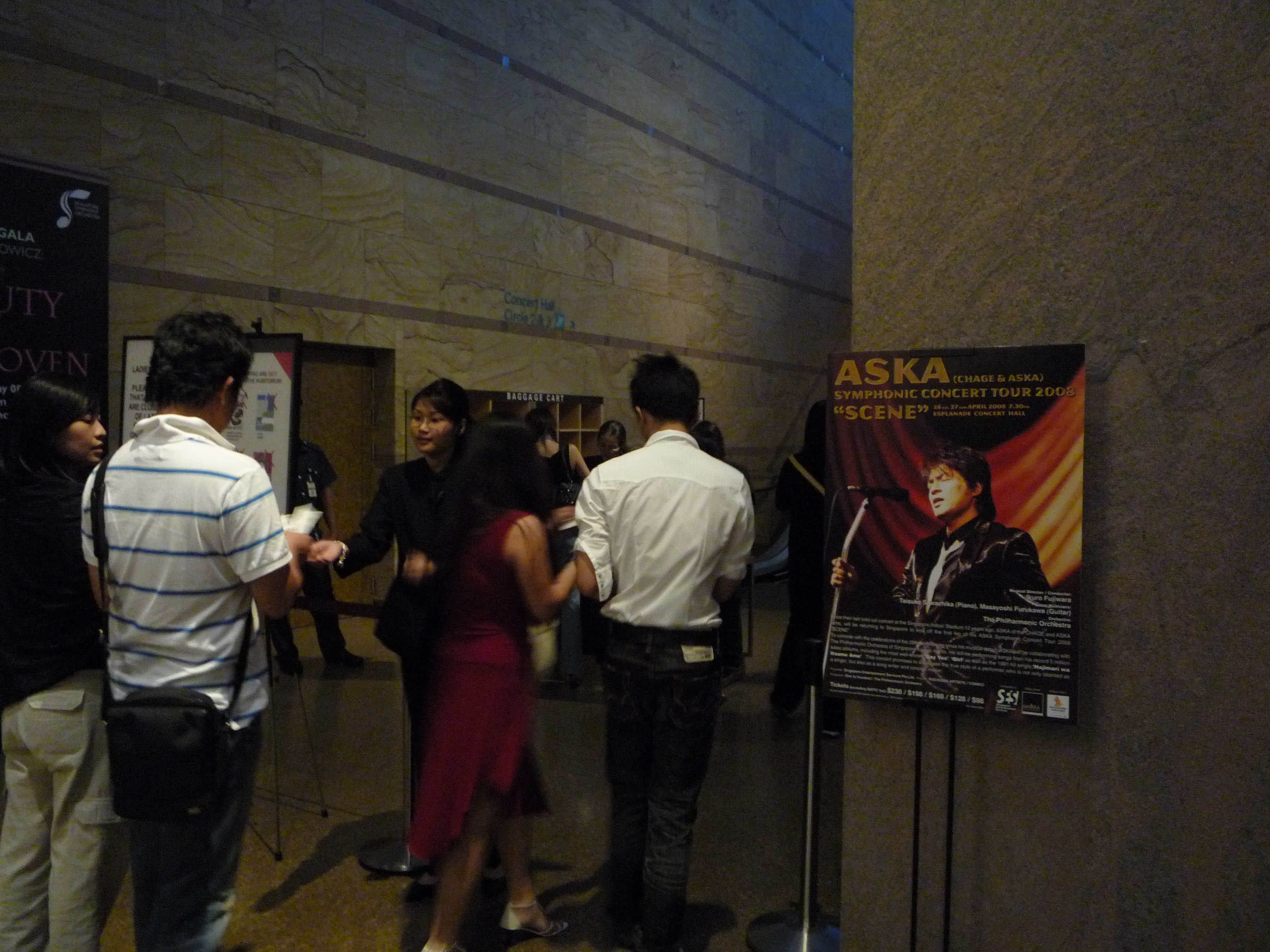 Entrance to ASKA SYMPHONIC CONCERT TOUR 2008 "SCENE"